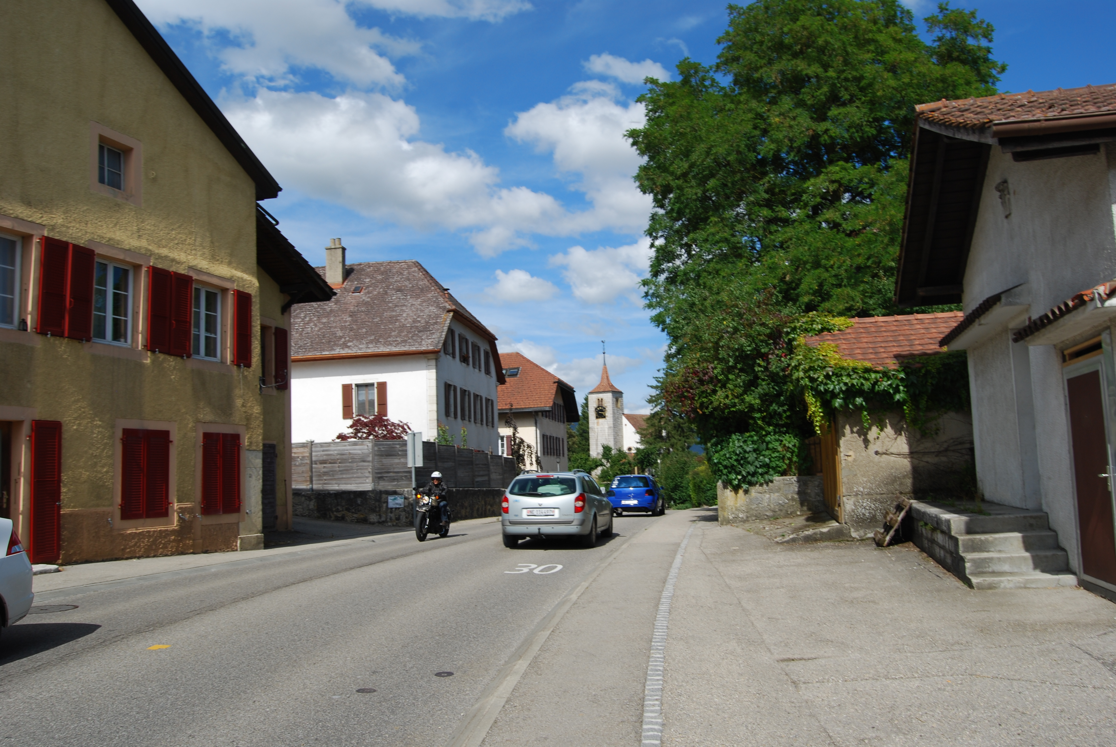 Church of Boudevilliers, canton of Neuchâtel, Switzerland